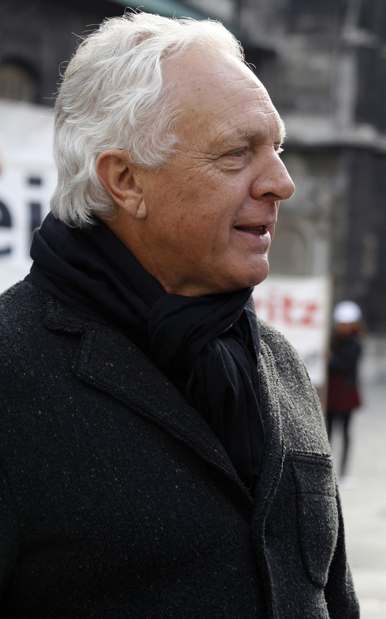 Austrian politician Fritz Dinkhauser during the campaign for the Austrian legislative election 2008.